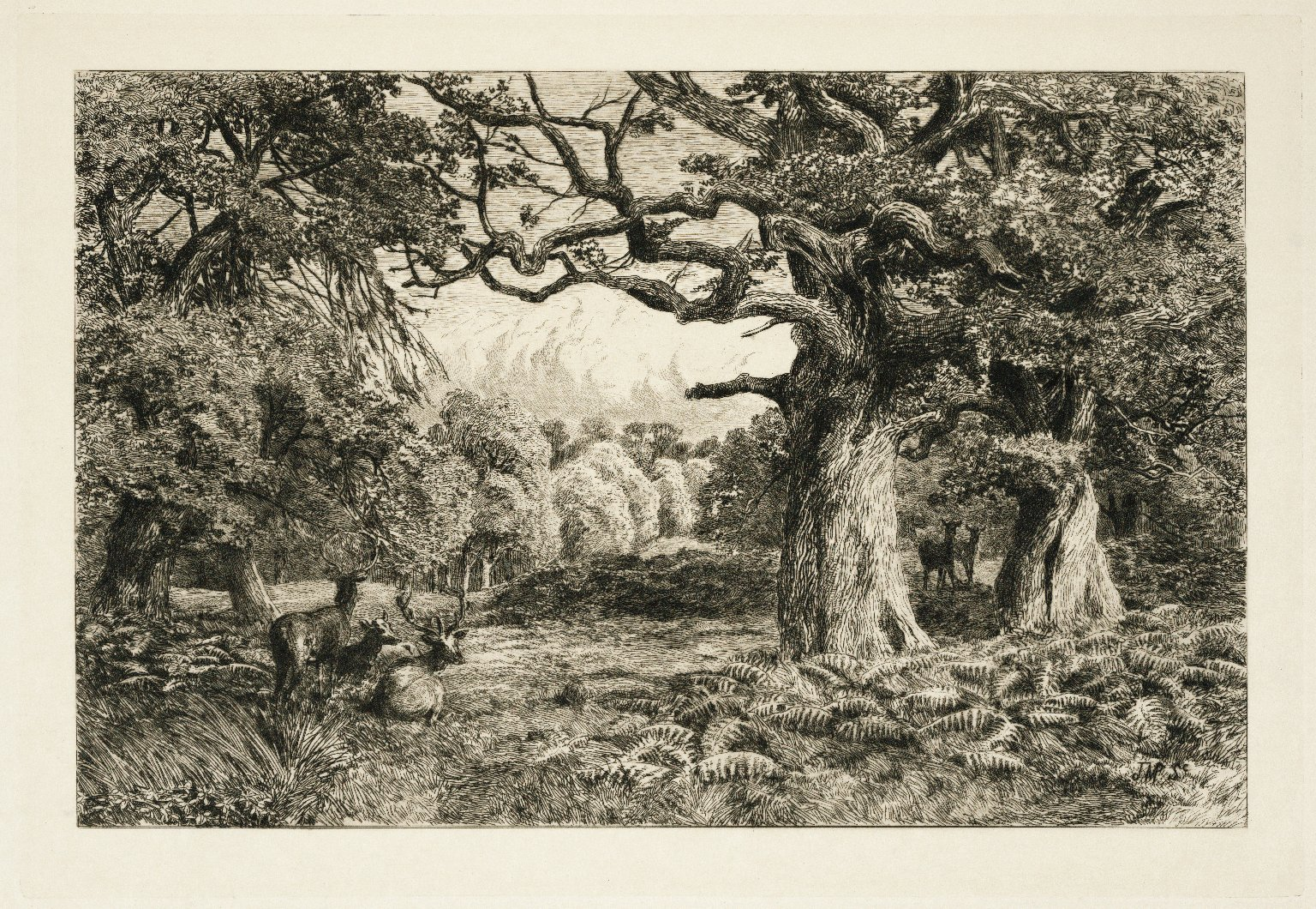 An etching of the Forest of Arden from Shakespeare's As You Like It, made by John Macpherson in a series created by Frederick Gard Fleay, from the Folger's Digital Image Collection